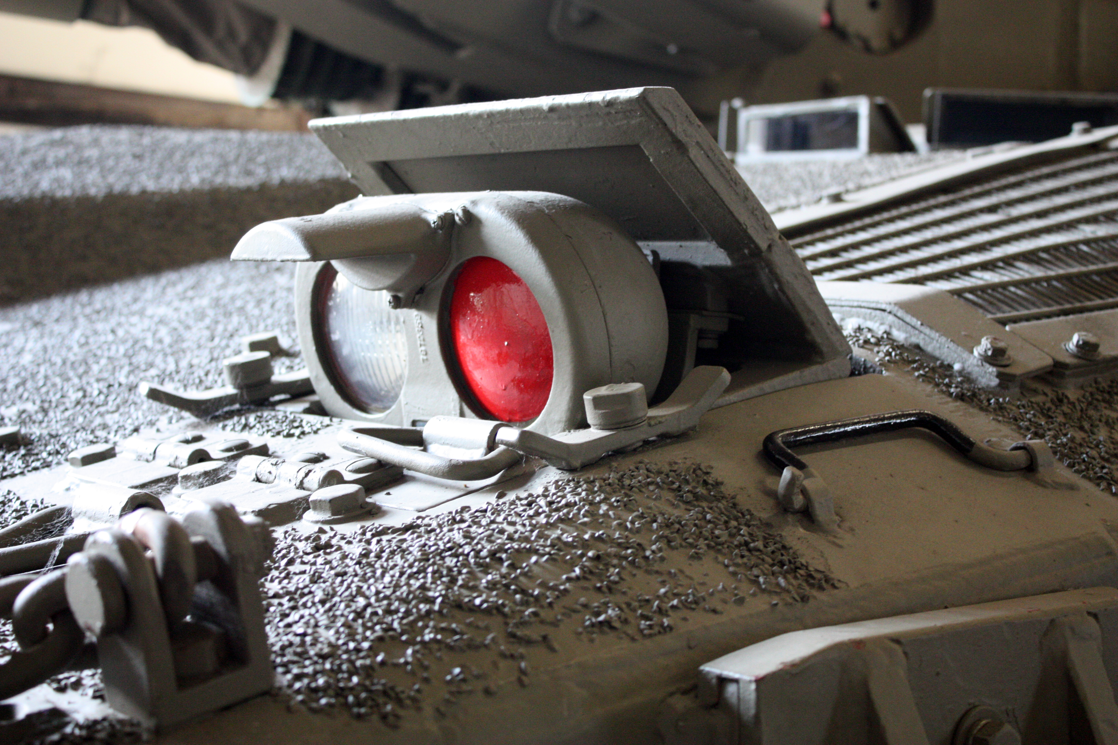 German Tank Museum